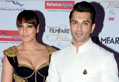 Bipasha Basu and Karan Singh Grover at Filmfare Glamour & Style Awards 2016